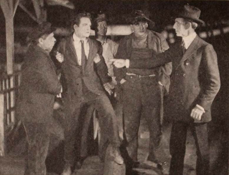 Still from the American film serial Double Adventure (1921) with Charles Hutchison, on page 66 of the January 22, 1921 Exhibitors Herald.